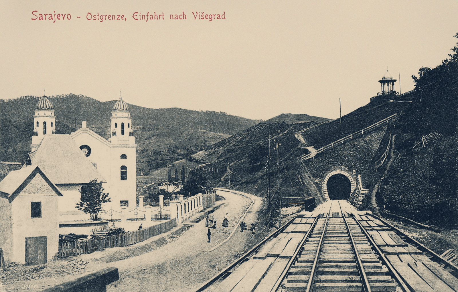 The synagogue and the western portal of the tunnel No. 6 in Višegrad